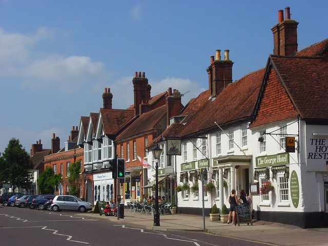 High Street, Odiham The 18th century frontage of The George Hotel hides an older building originally licensed in 1547. It forms part of the elegant village centre.